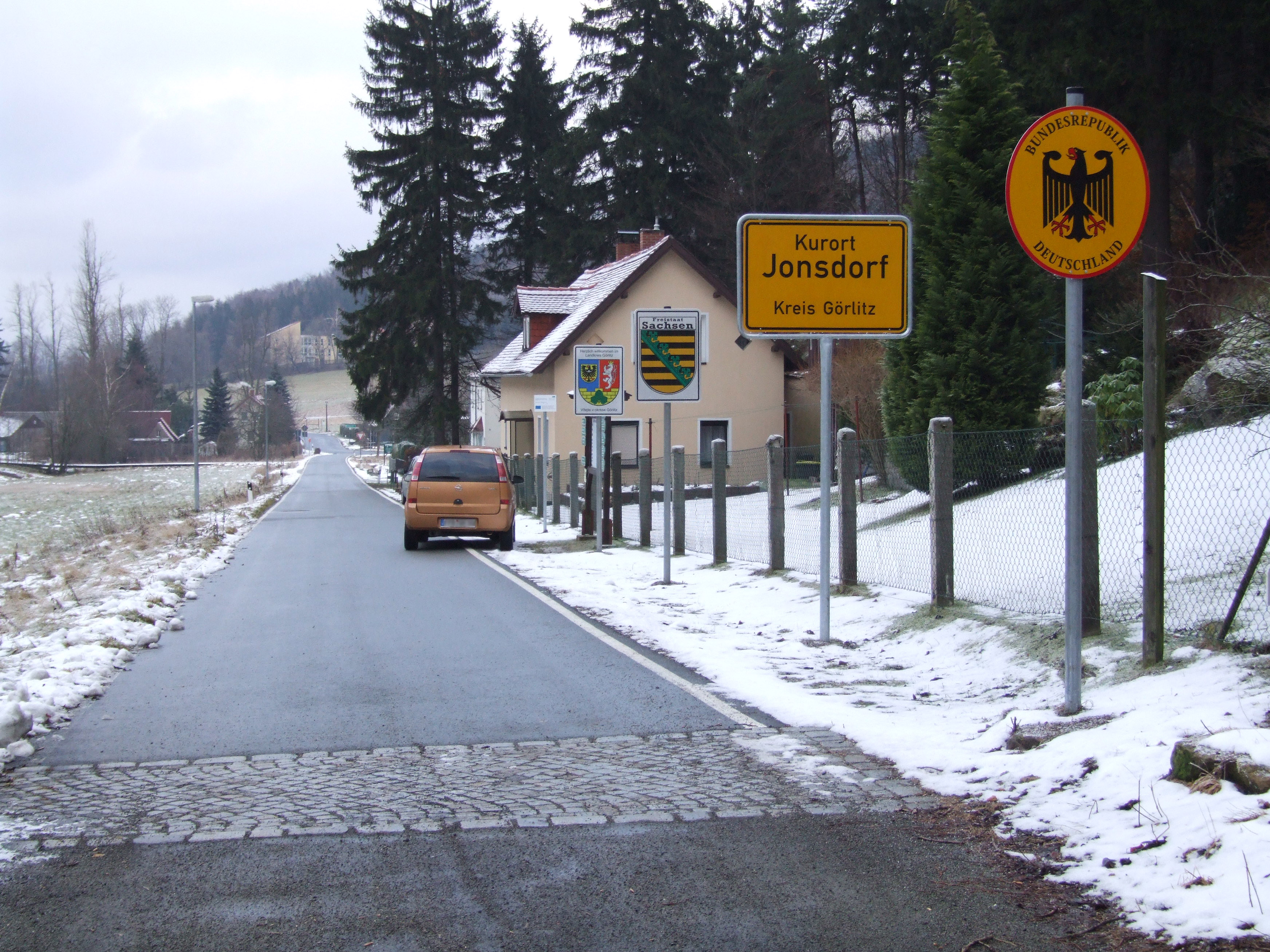 Border crossing